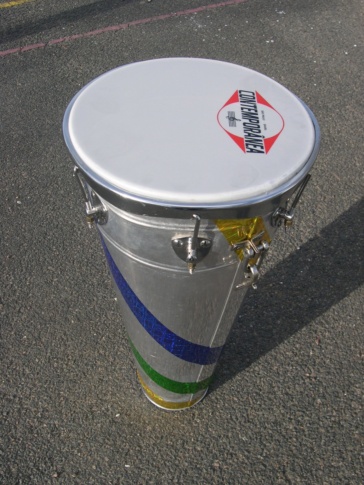 Timbal.